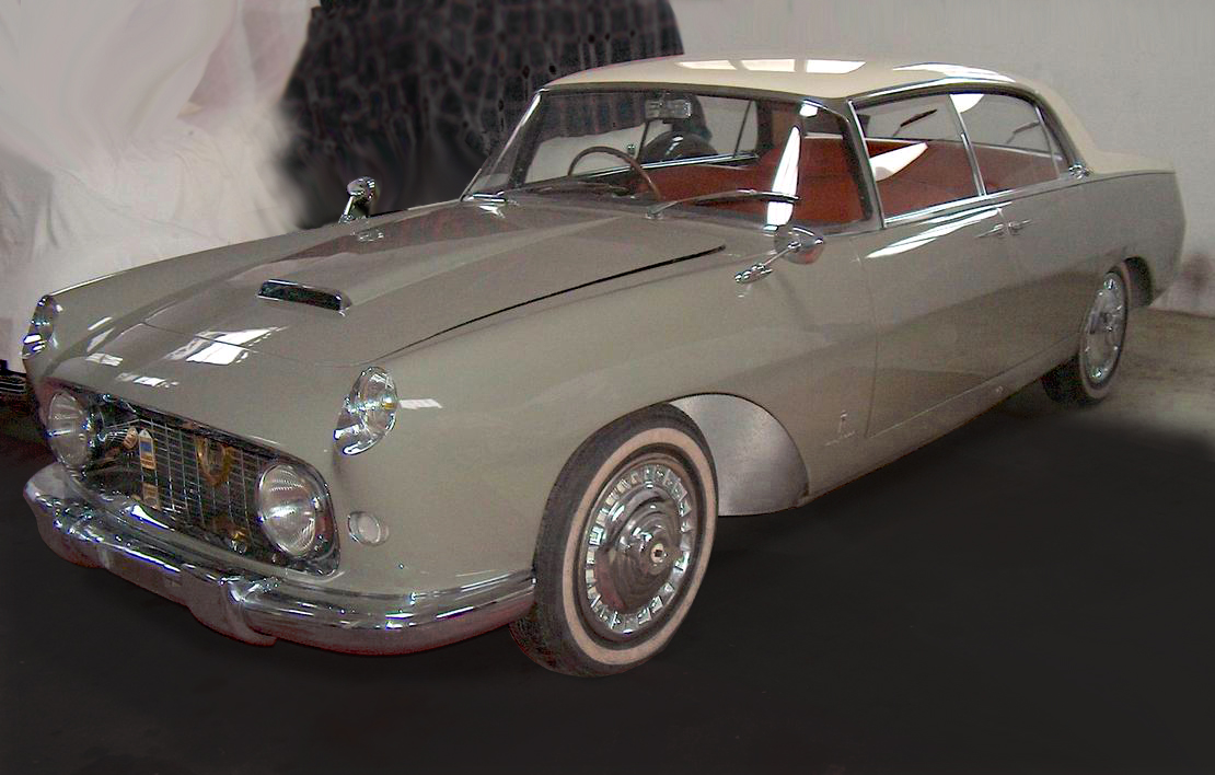 Lancia Florida I, B12 from 1955